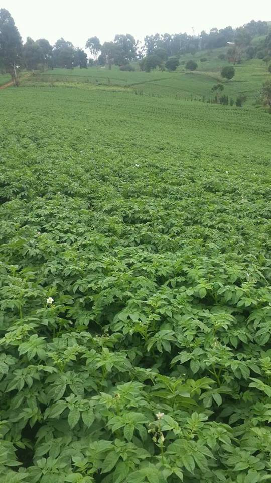 An irish potato farm at Kongefém (at the Pagapuh quarter) in Mmuock Leteh, Lebialem Division, Cameroon